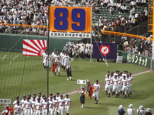 Koryo-High School Hanshin Koshien Stadium 第89回全国高等学校野球選手権大会・開会式の広陵高等学校入場行進の様子